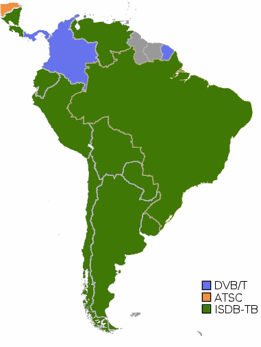 Digital Television in South America